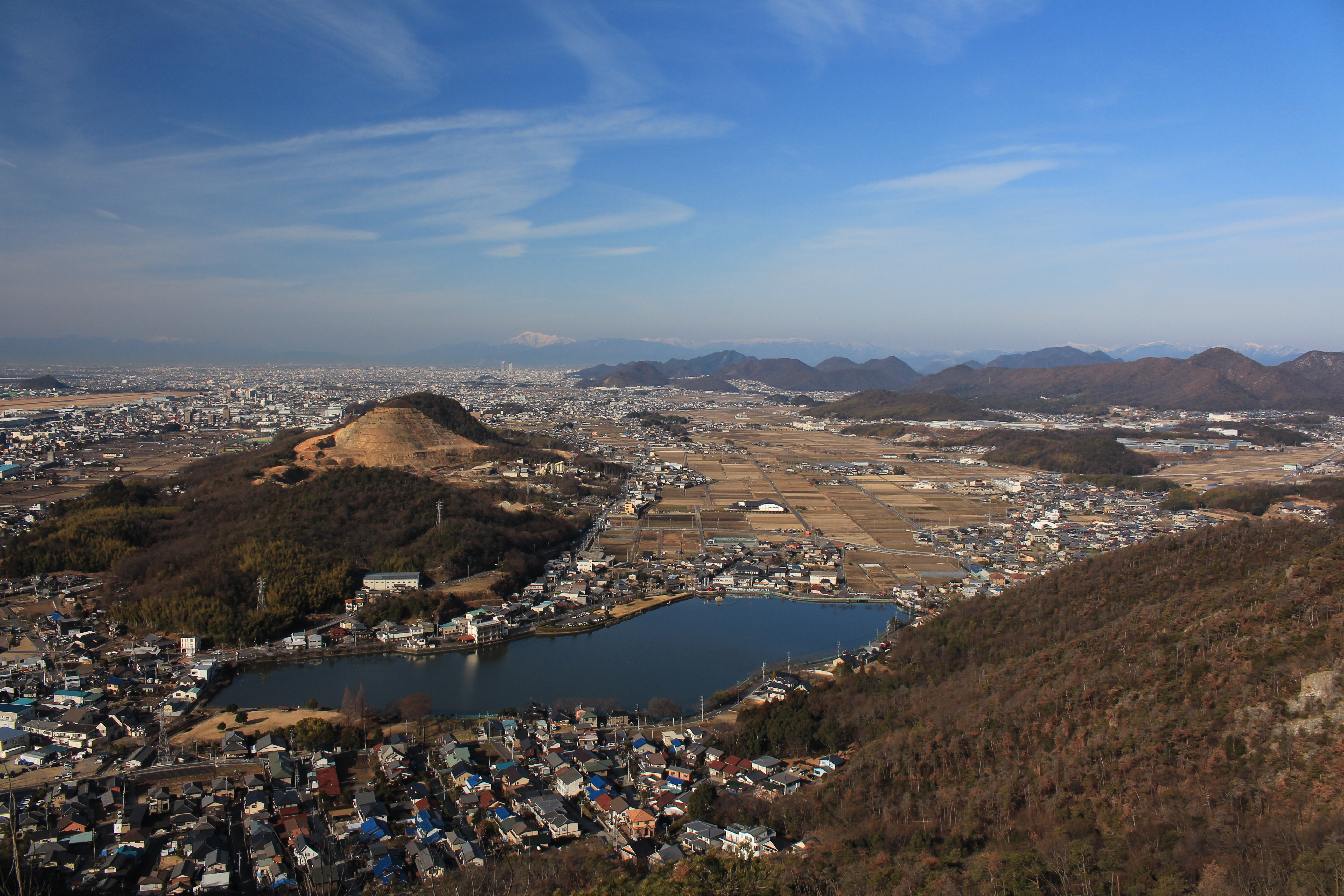 Mount Kakami and Ogase Pond seen from Mount Atago in Kakamigahara, Gifu prefecture, Japan.